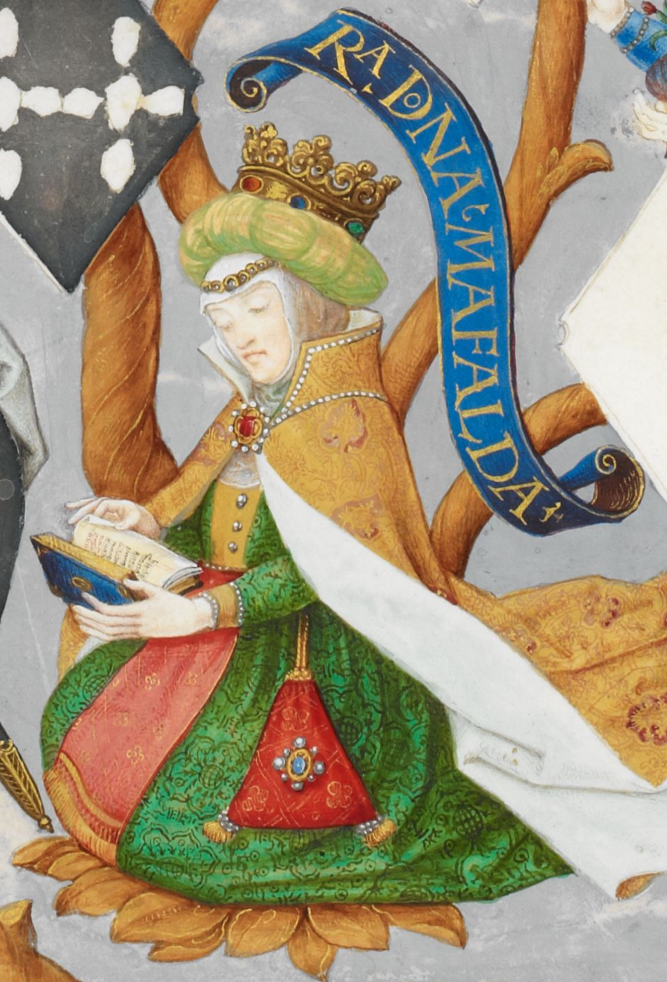 Mafalda of Savoy (1125-1158), first queen consort of Portugal, in a 16th-century miniature.